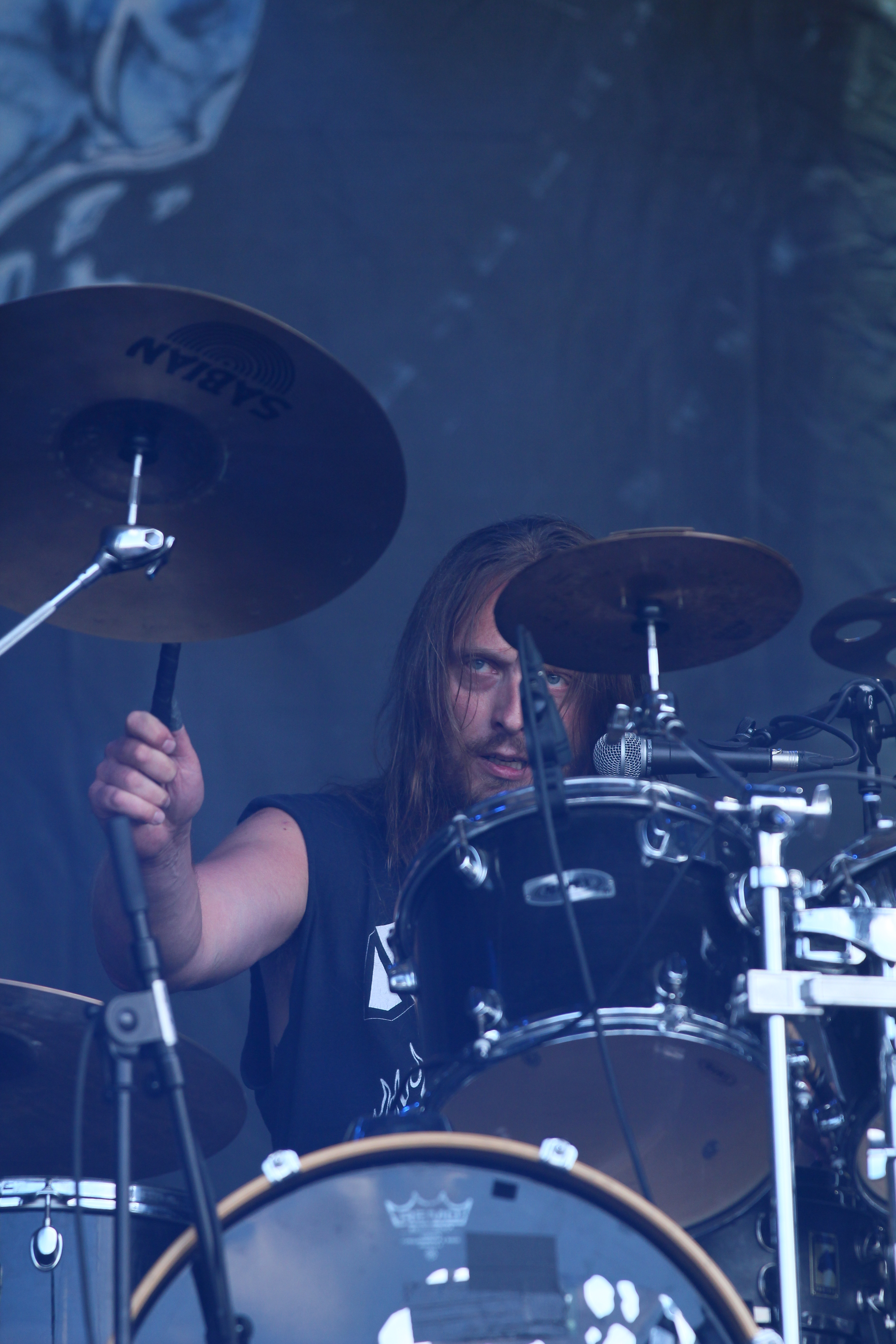 The German thrash metal band Destruction at the Rockharz Open Air 2014 in Ballenstedt/Germany